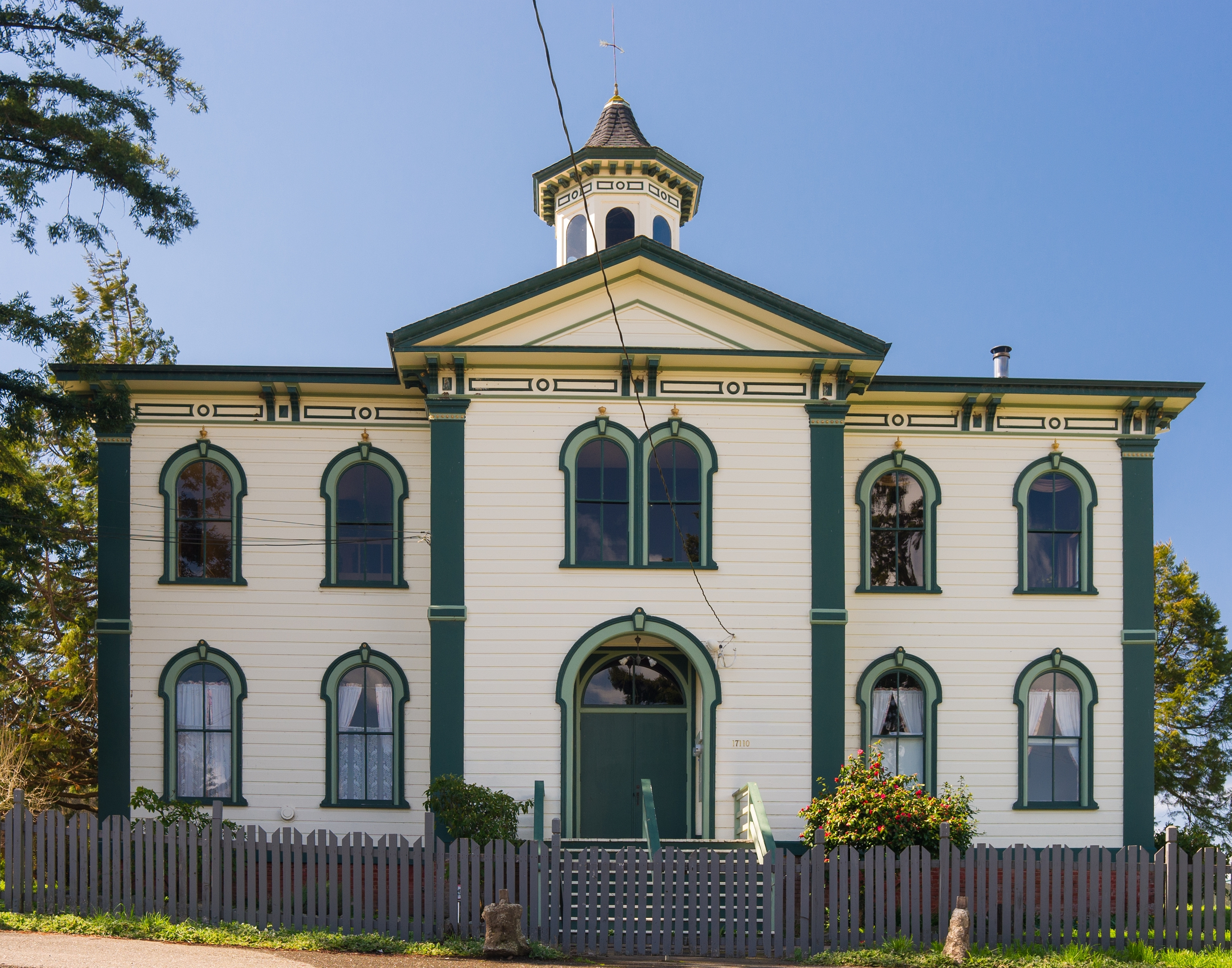 Bodega schoolhouse, setting for the schoolhouse scene in Alfred Hitchcock's film The Birds.